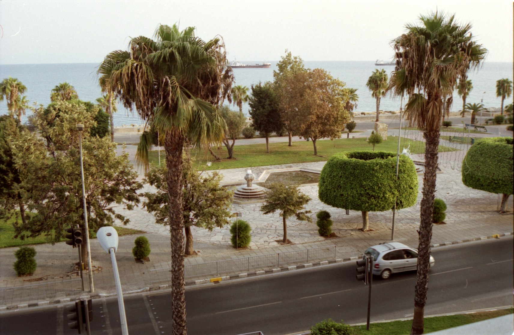 Limassol - Sea Front and Park